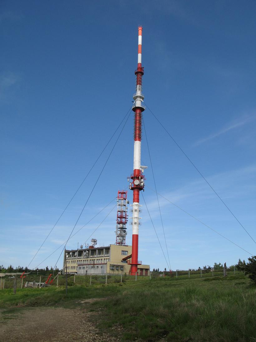 Krizava